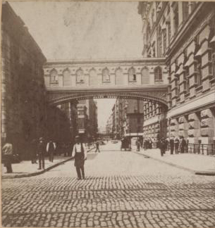 The "Bridge of Sighs," connecting the Tombs prison at left with the Manhattan Criminal Courts building at right (circa 1896)